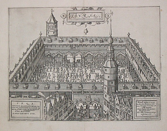 From: Lodovico Guicciardini (1612), "Beschrijvinghe van alle de Nederlanden anderssins ghenoemt Neder-Duytslandt" (Willem Blaeu, Amsterdam). Translation of "Descrittione di tutti i Paesi Bassi, altrimenti detti Germania inferiore (1567, Willem Silvius, Antwerp). Drawing first appeared in the Plantijn edition of the latter work (1581, Antwerp)